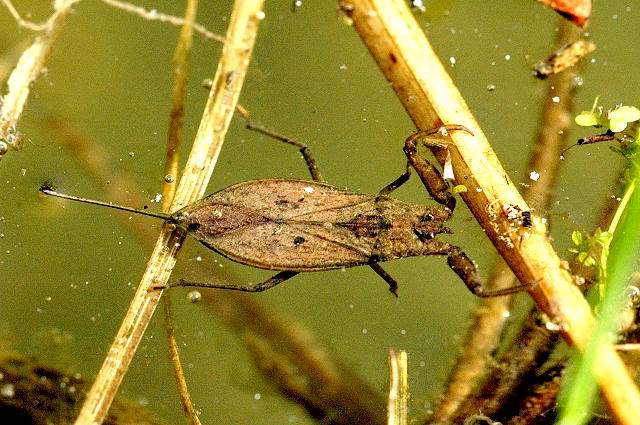 Picture taken in Commanster, Belgian High Ardennes . Species: Nepa cinerea